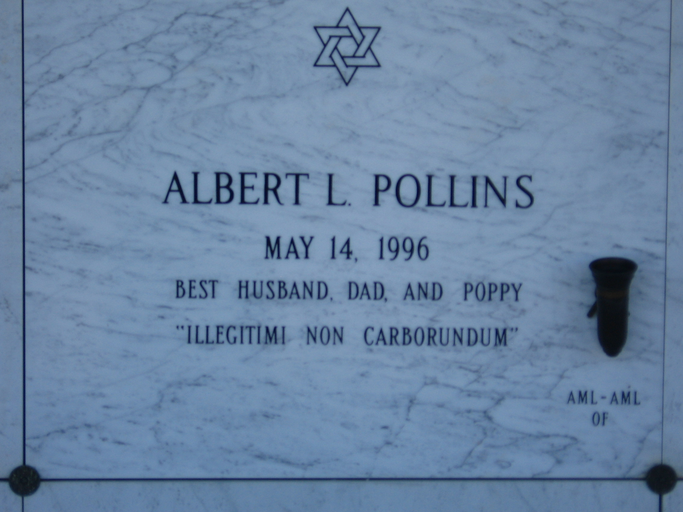 Gravestone of Albert L Pollins: "Best Husband, Dad, and Poppy. Illegitimi Non Carborundum"